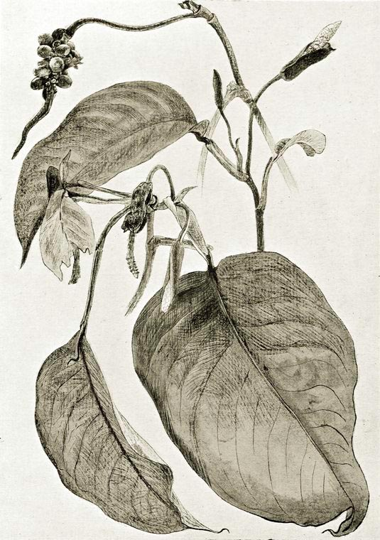 A climbing culcasia arum (C. Scandens)